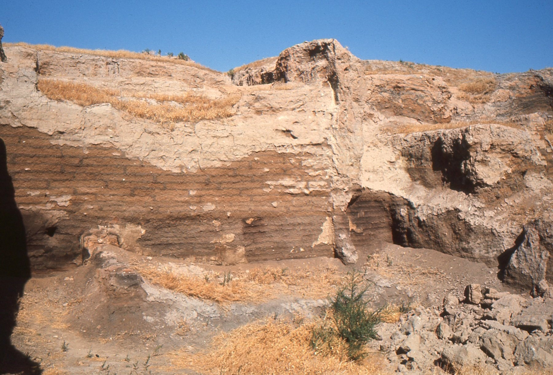 A photo of the earliest excavations in Çatalhöyük.